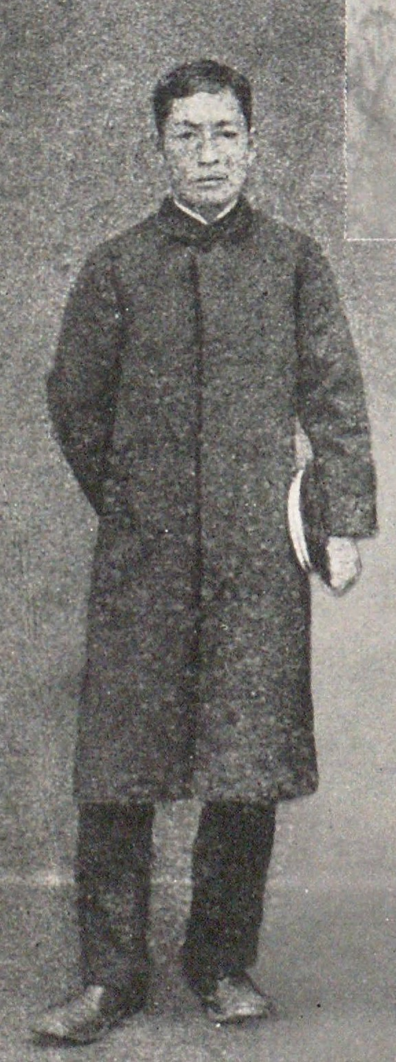 Natsume Soseki as a student of First Higher School in 1884-1888.